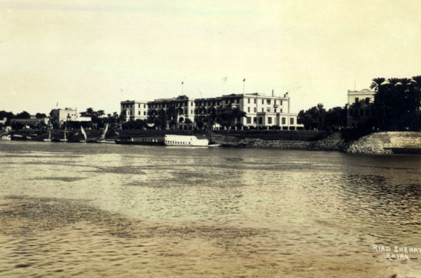 Opening ceremony of the Luxor-Aswan rail line 1926